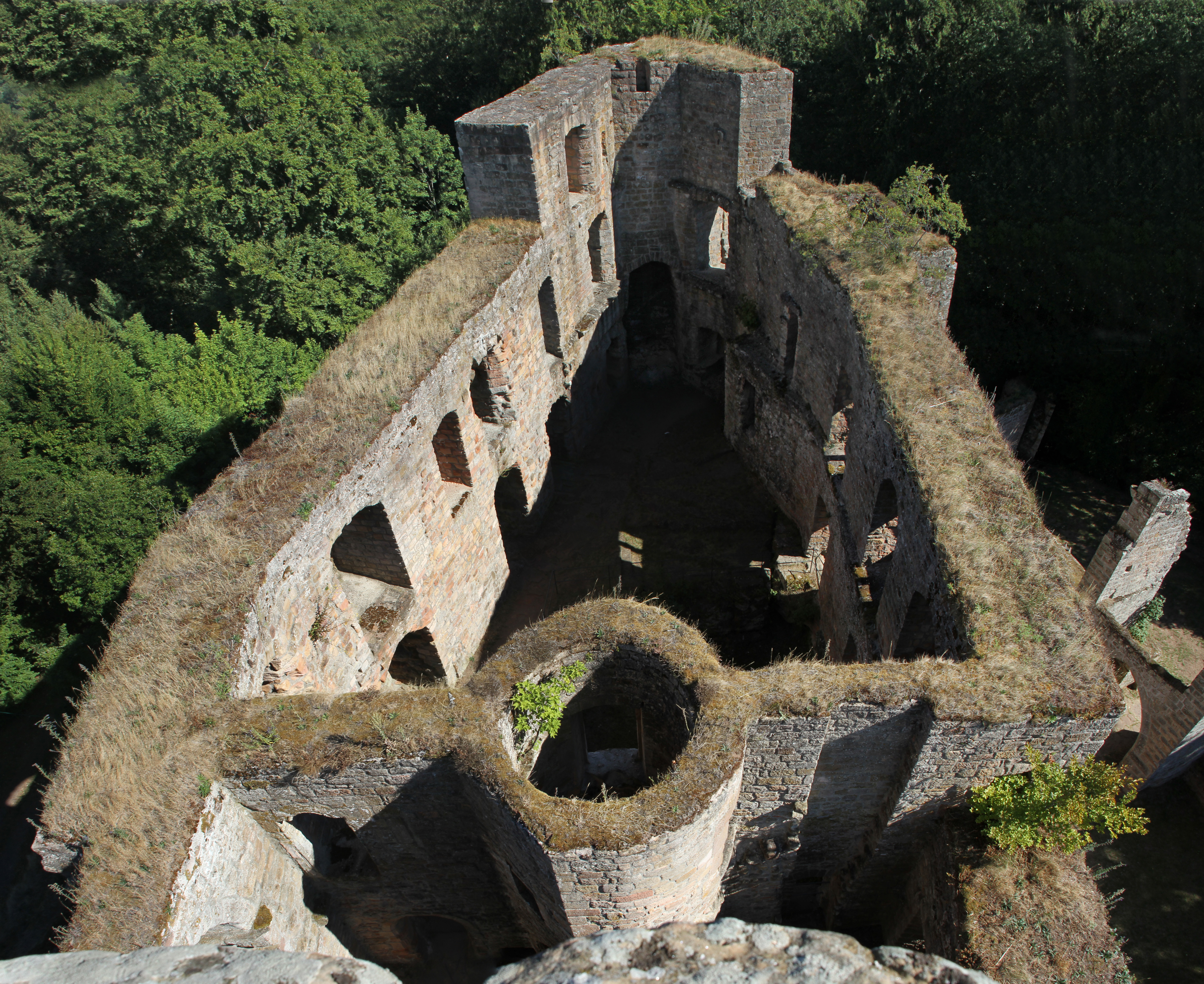 Gräfenstein Castle nearby Merzalben/Germany.